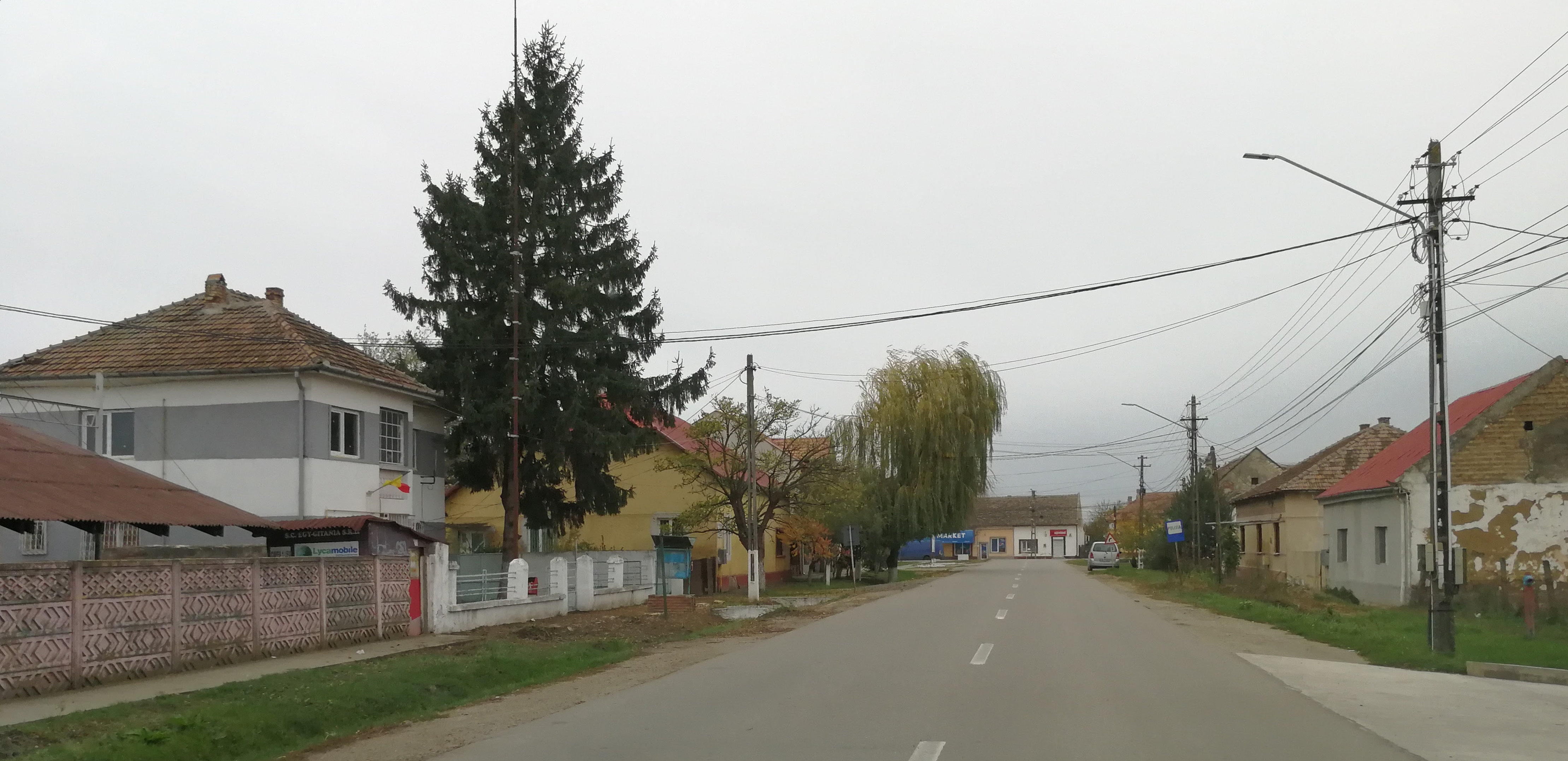 Village of Peciu Nou, Timiș County, Romania